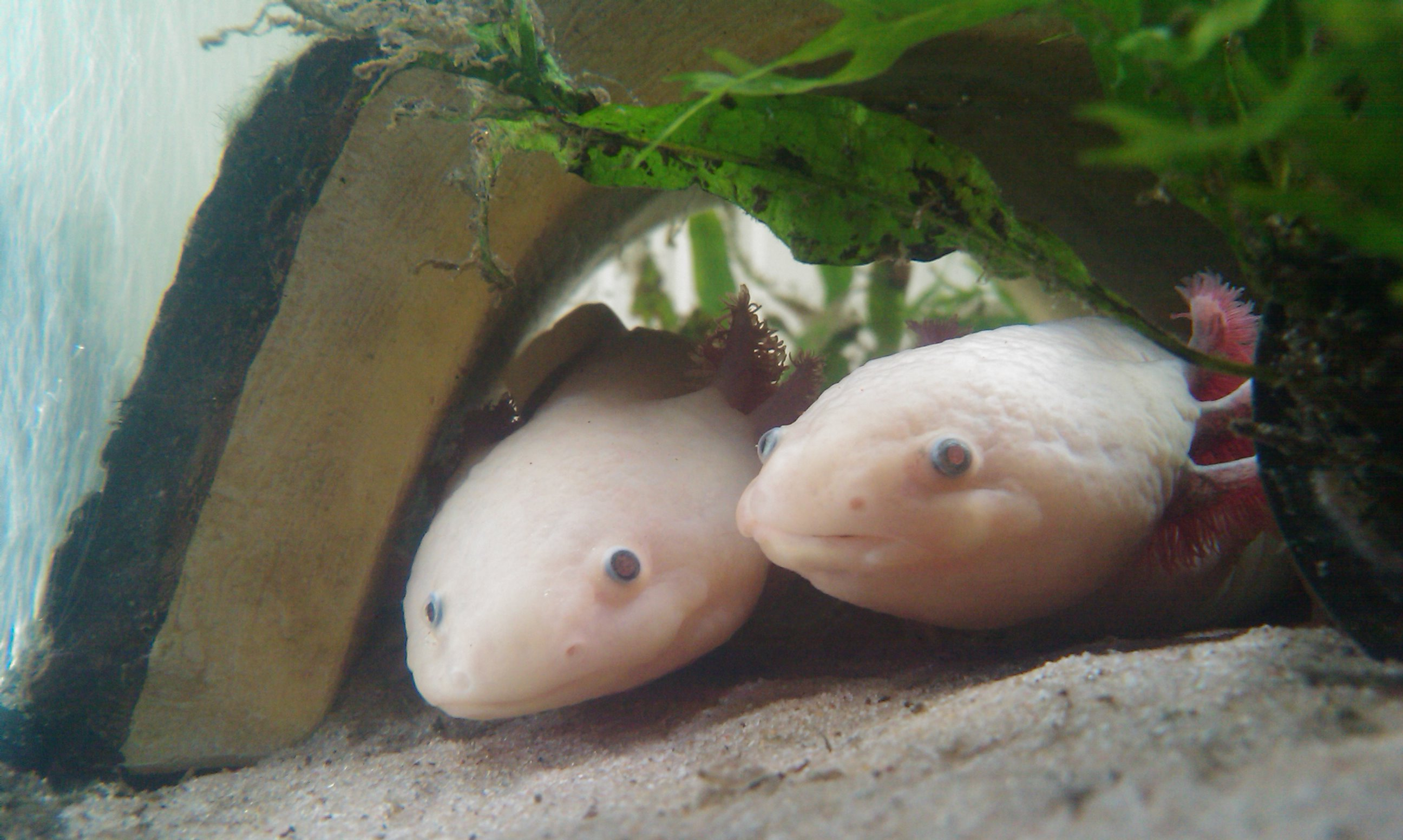 Two leucistic, adult axolotls hiding for bright light.